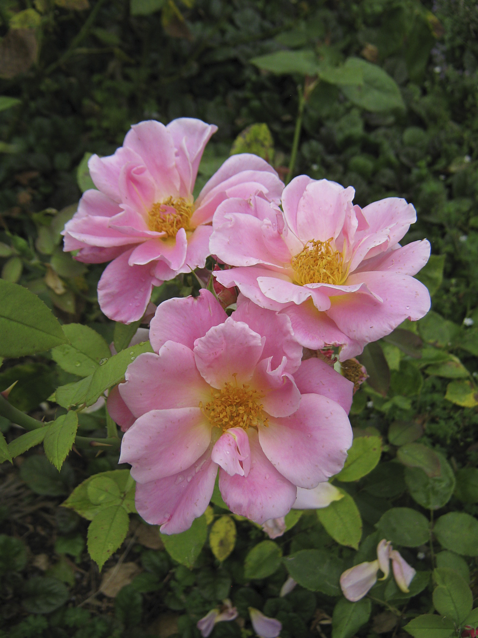 Rose 'Sheila Bellair', Hybrid Tea by Alister Clark 1937; photographed in the Alister Clark Memorial Rose Garden, Bulla, Victoria